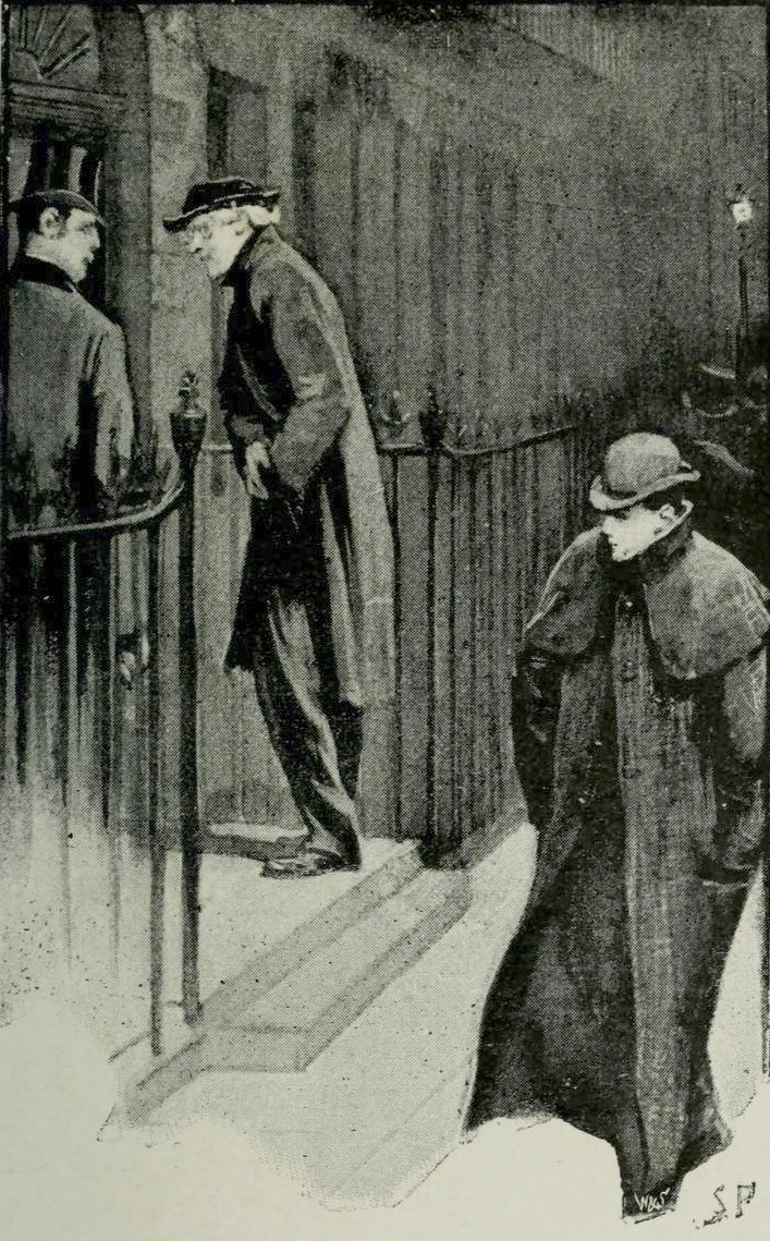 Illustration of the short story A Scandal in Bohemia, which appeared in The Strand Magazine in July, 1891. This illustration appeared on page 73, and is captioned, "GOOD-NIGHT, MR. SHERLOCK HOLMES."